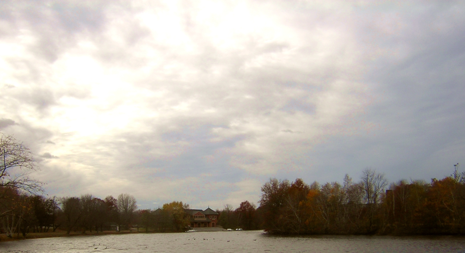 Charles River Reservation Parkways Allston (Boston), MA. Soldier's Field Road is to the left and Greenough Blvd is to the right. Both are part of the Charles River Reservation Parkways. Northeastern University's Henderson Boathouse is in the center.